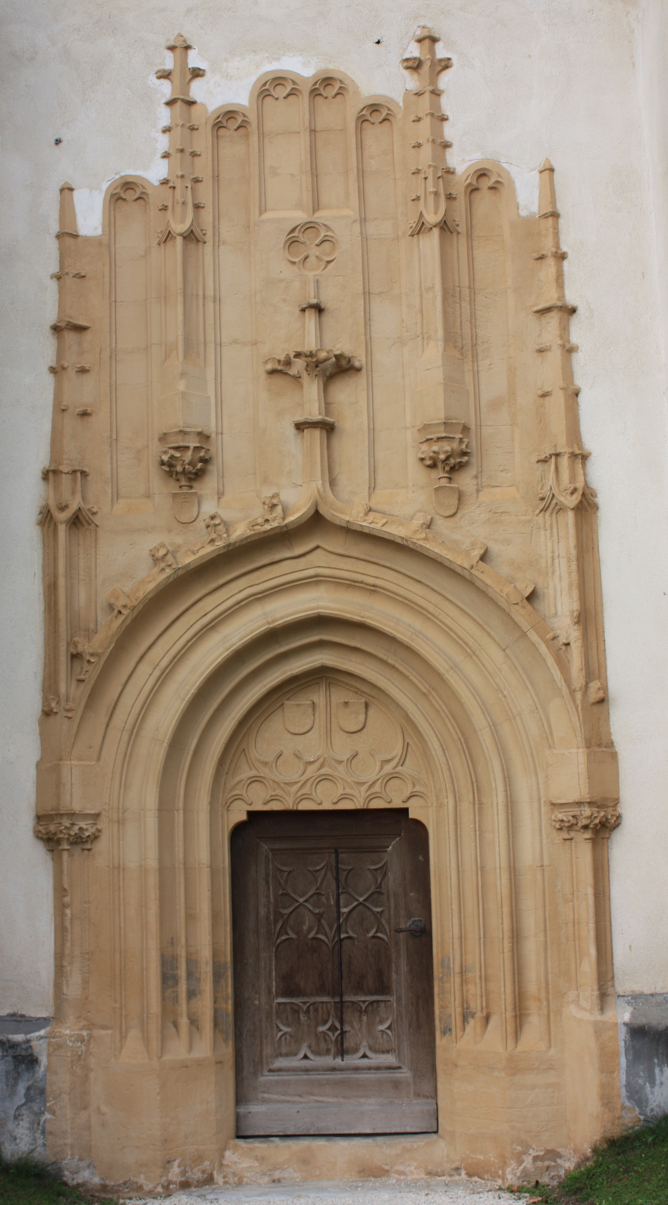 Parish church Assumption of Mary - Side portal Locality: Sankt Marein im Lavanttal Community:Wolfsberg